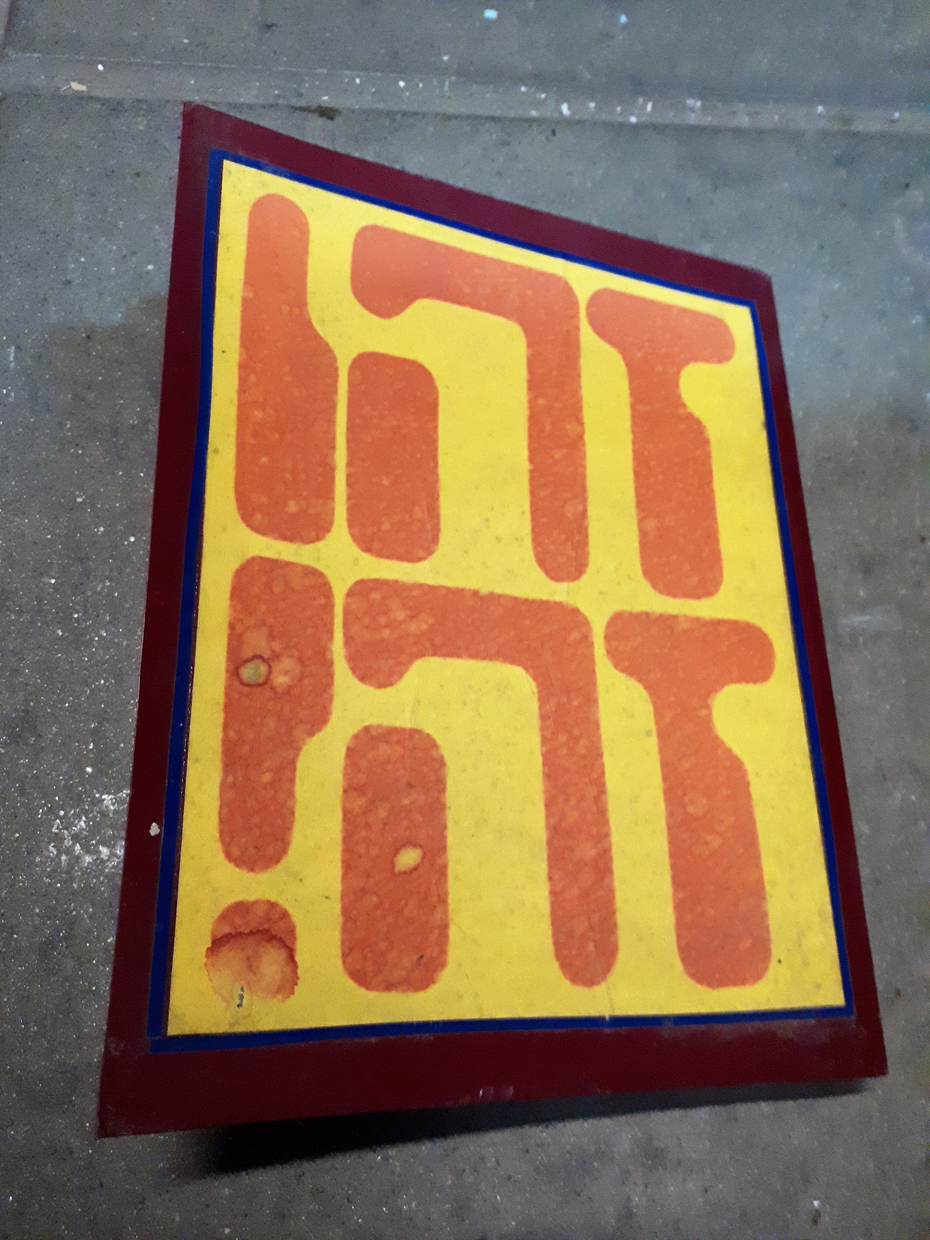 Television props at the IETV. Tel Aviv, April 2018